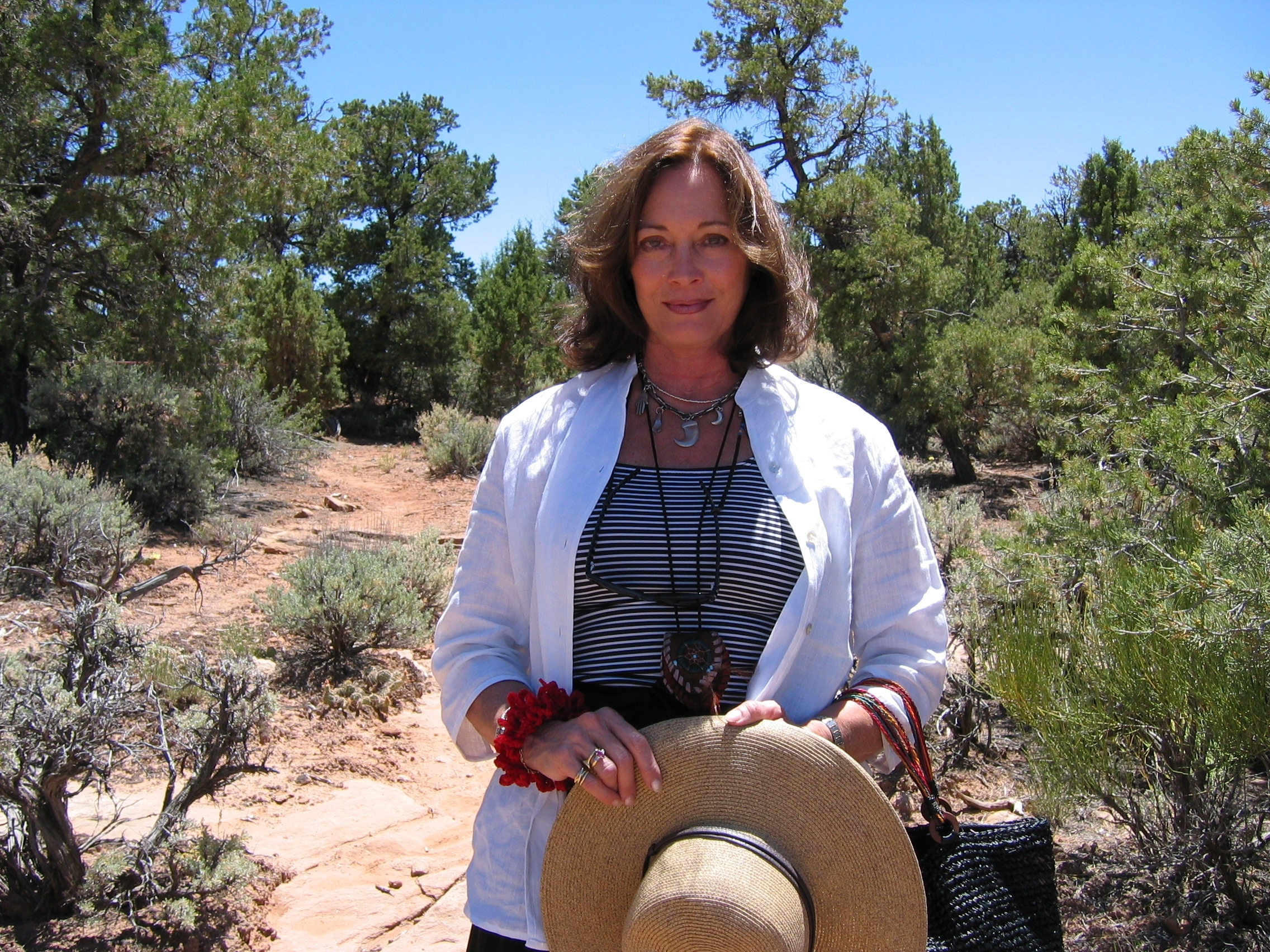 Barbara Leigh